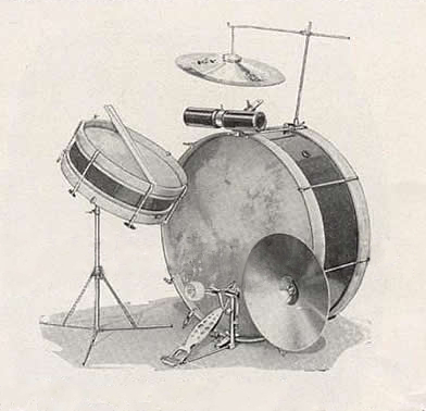 This is the only set pictured in the 1918 Ludwig catalog. The "Outfit" was just becoming part of the drumming world. We do know the bass drum pedals have been around since the late 1800's and the first Ludwig Pedal Patent was in 1909. So, drummers were using them in their playing, but companies were not putting together in catalogs.